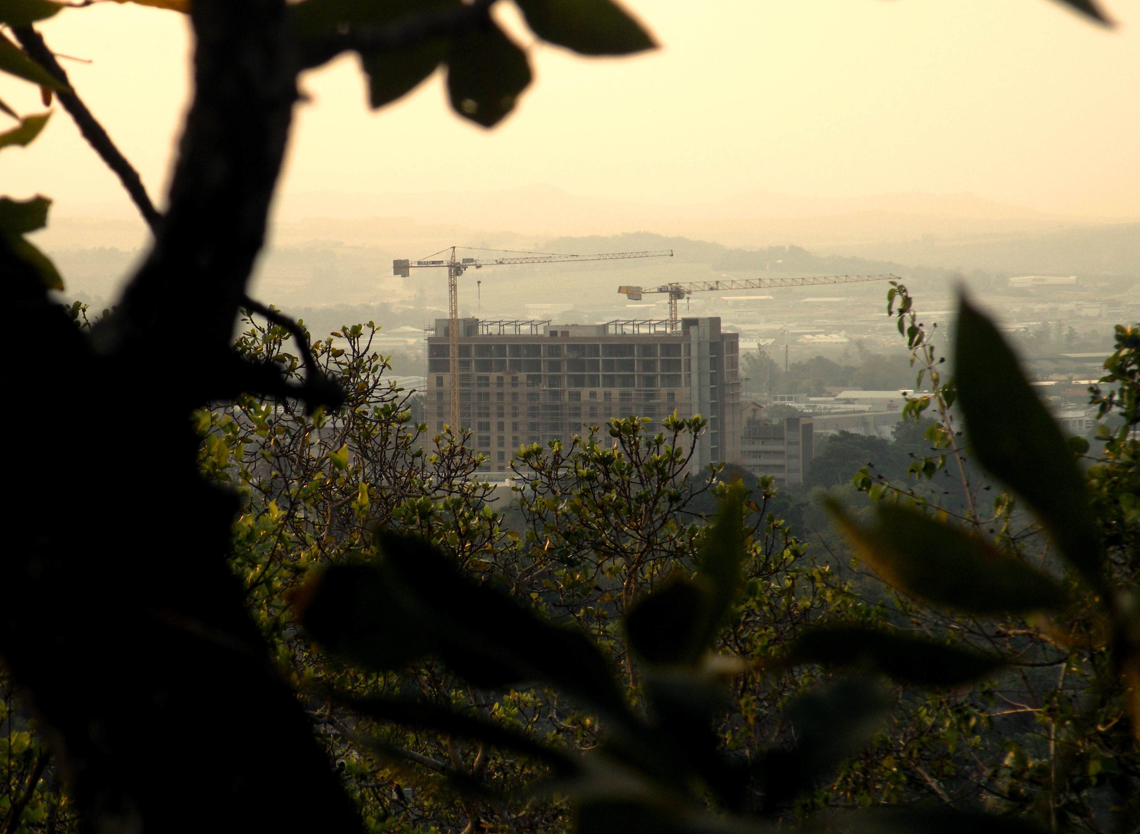 Expansion underway at the Rob Farreira Provincial Hospital, Nelspruit, South Africa